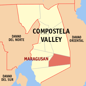 Map of the Compostela Valley showing the location of Maragusan